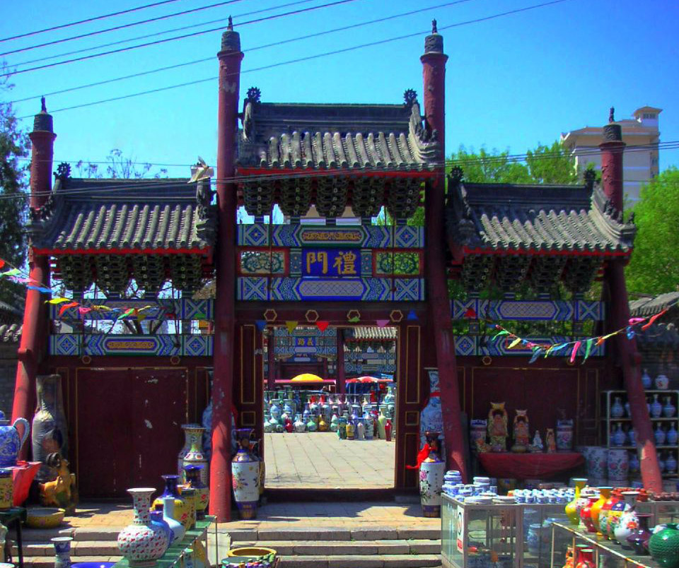 Confucian Temple in Tianjin